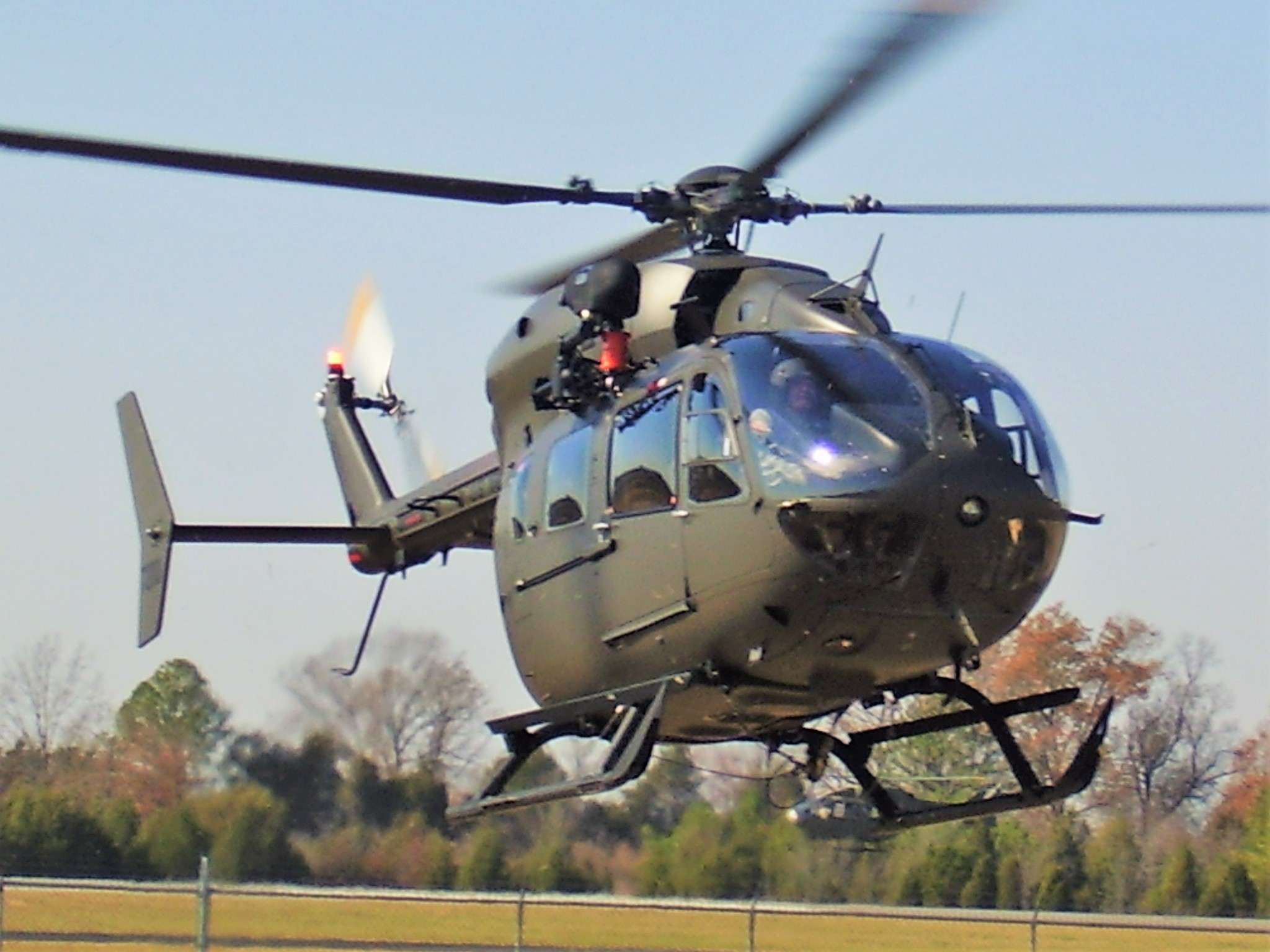 Lakota Landing: The UH-72A Lakota helicopter is a non-arms-bearing helicopter that performs medical and casualty evacuations, provides disaster relief, aids in homeland defense and also works to counter drugs and narcotics.